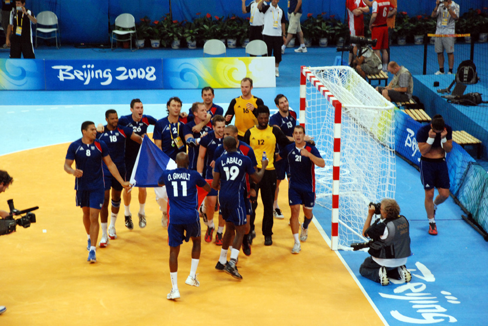 French handball team celebrating the victory in the olympic tournament, august 24th 2008 at the National Indoor Stadium, Beijing